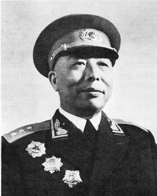 Song Shilun